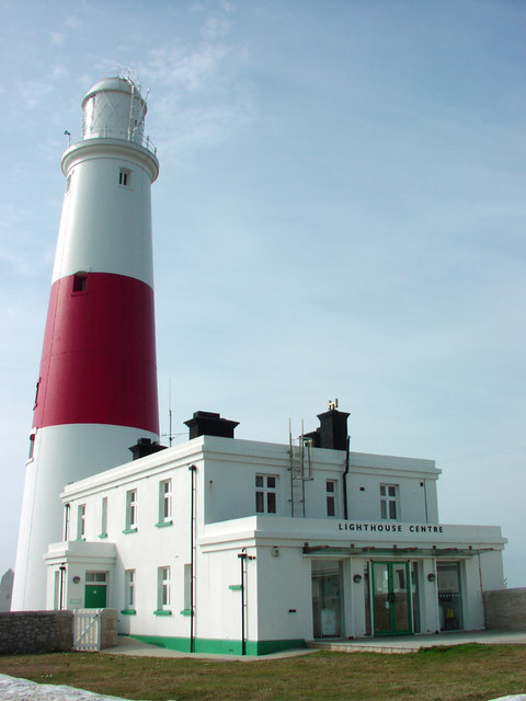 Portland Bill Lighthouse